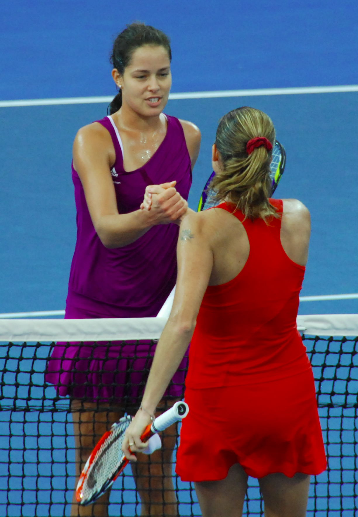 Ana Ivanović and Amélie Mauresmo at 2009 Brisbane International, Brisbane, Australia.